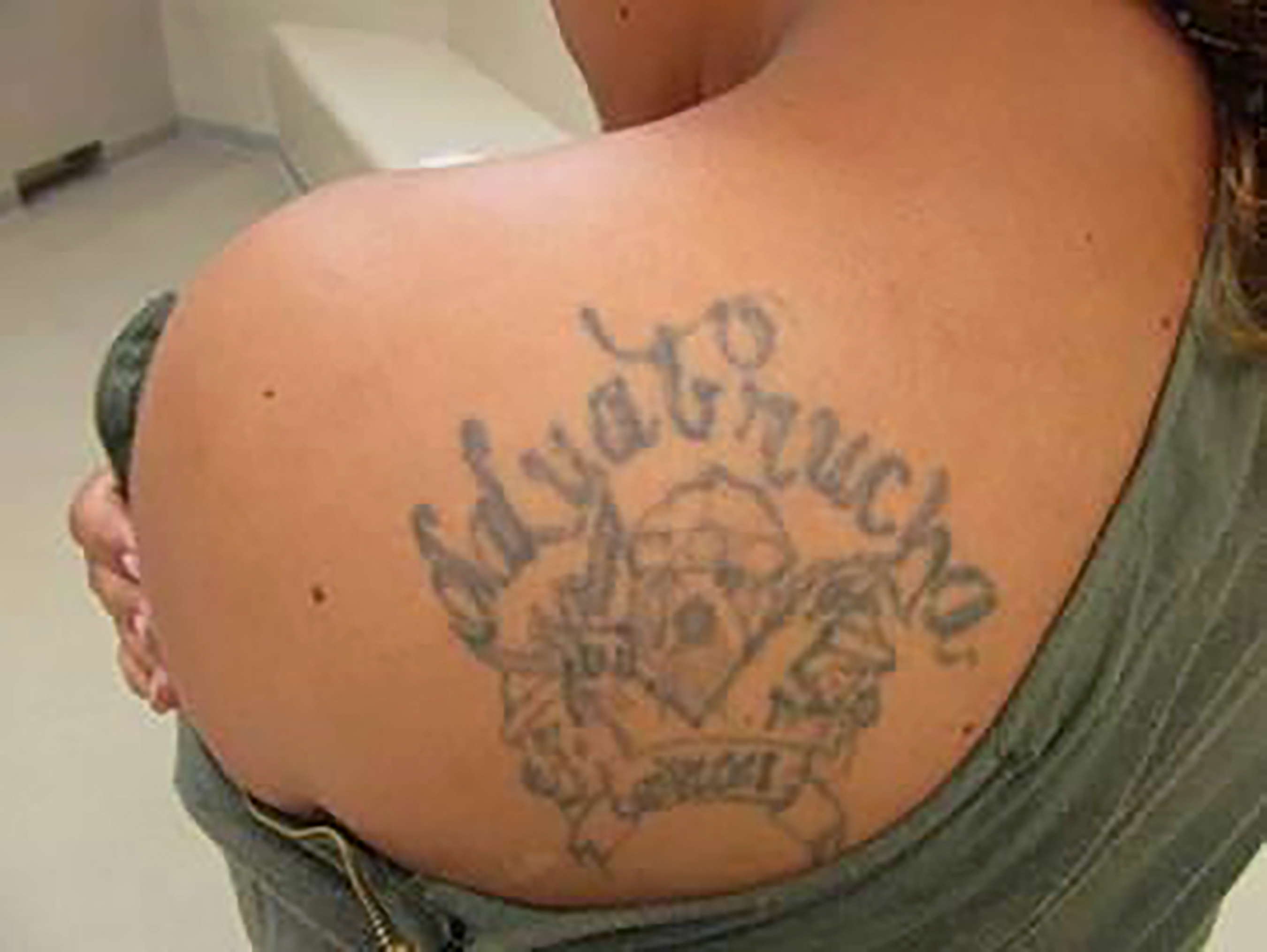 EDINBURG, Texas – U.S. Border Patrol agents from the Rio Grande Valley Sector arrested three criminal aliens. On October 11, 2017, agents assigned to the McAllen Border Patrol Station arrested a Salvadoran national near Hidalgo, Texas. Record checks revealed the man had an active warrant and was wanted for homicide in El Salvador. Furthermore, it was discovered the man was a member of the notoriously deadly Mara Salvatrucha gang, also known as MS-13. On Saturday, October 14, 2017, Rio Grande City agents apprehended a female Salvadoran national near San Isidro, Texas. During an interview with agents, the woman self-admitted to being a member of the MS-13 gang and presented two tattoos to validate her claim. Record checks confirmed the woman’s gang affiliation. On Sunday, October 15, 2017, agents in Weslaco encountered a Mexican national near Pharr, Texas as he attempted to illegally enter the United States. Record checks revealed the man had been previously arrested by the Los Angeles Police Department for rape and was convicted to the lesser charge of sexual penetration with force. The man was sentenced to four years in prison. Photo provided by: U..S. Customs and Border Protection